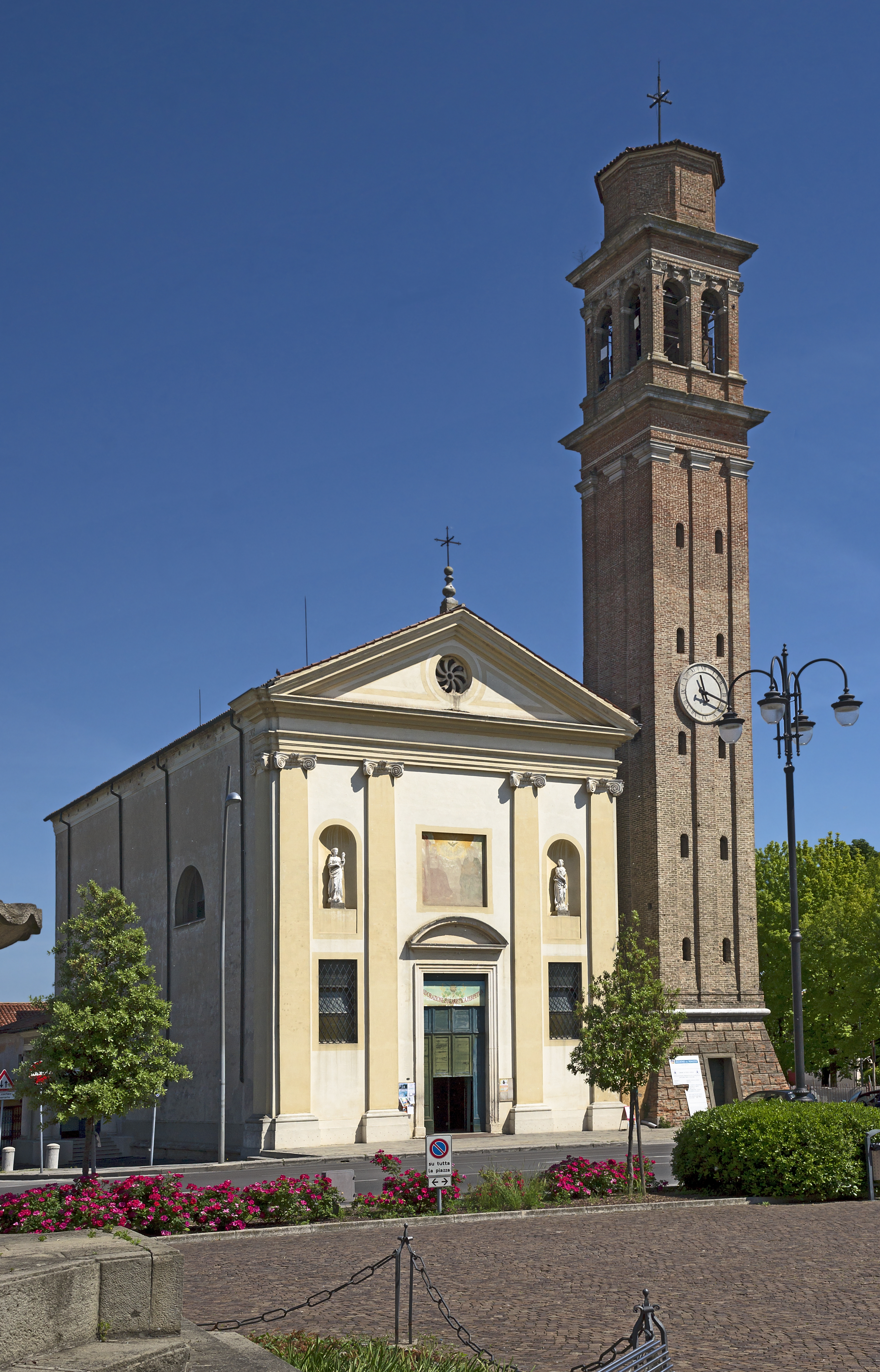 The church of Fiesso d'Artico